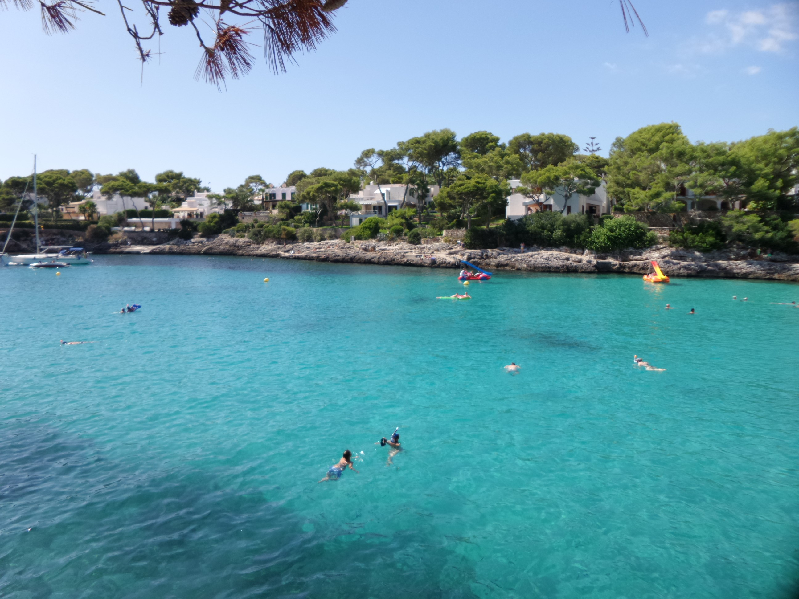 Cala Gran (Bay, Beach)